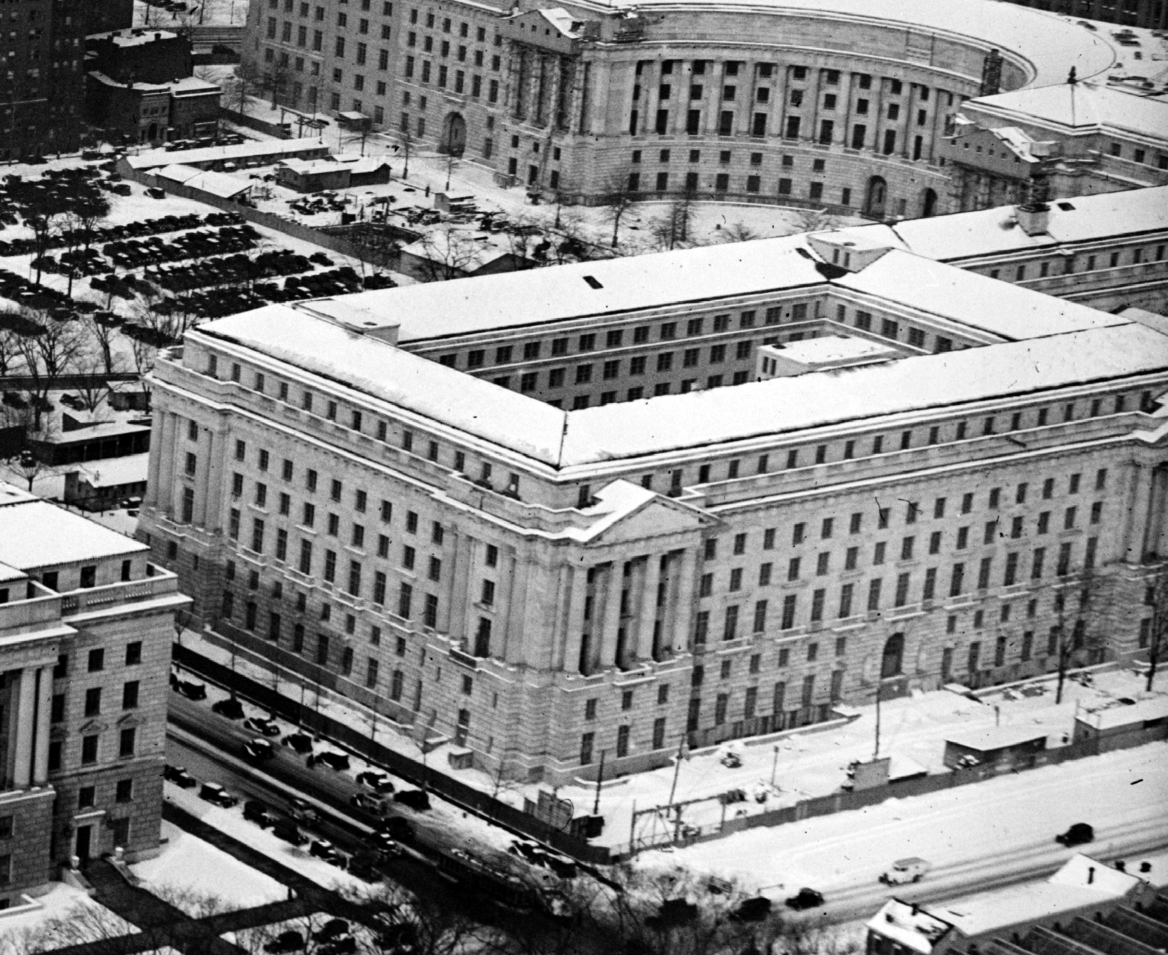 View of the original Department of Labor Building in Washington, D.C., with construction nearly complete in 1934. The Department of Commerce Building is seen at left, and the New Post Office Building (called the Ariel Rios Building during 1985 to 2013) is seen behind the Dept. of Labor Building. Cropped photo from original.